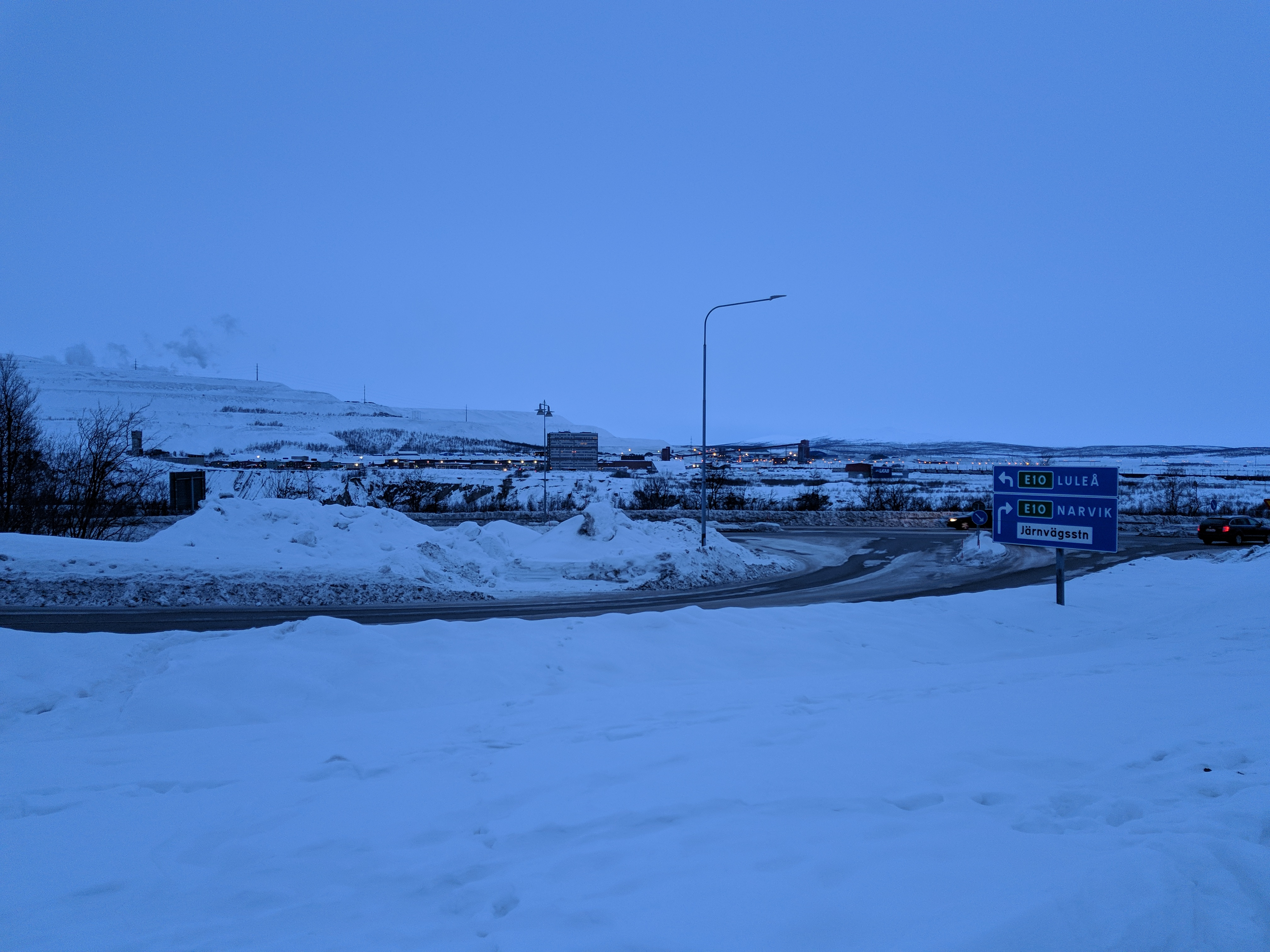 View of the Kiruna Mine from a junction connecting to the E10 Road. Kiruna, Sweden.